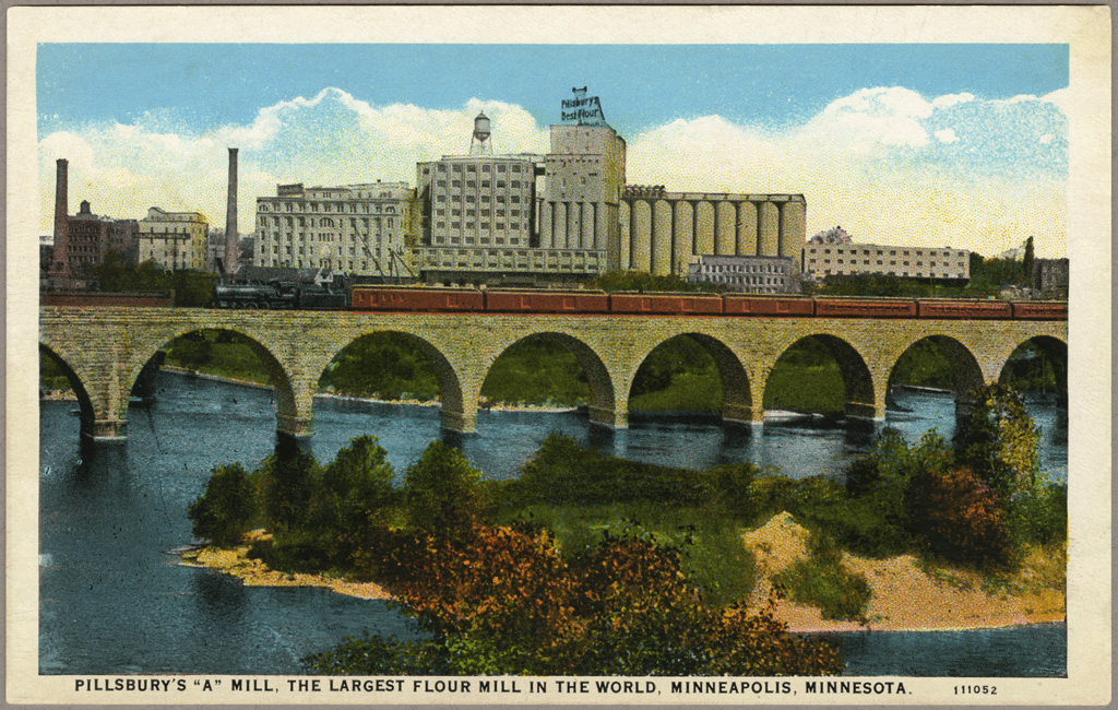 Related Work: depicts Pillsbury A Mill, designed by Leroy Sunderland Buffington (American architect, 1848-1931), built 1881 and the Stone Arch Bridge, designed by Charles C. Smith (American engineer, ), built 1882-1883. Work_Description: Published by the Co-Mo Company, Minneapolis. [111052] Culture: American Date: 1919-1928 Measurement Display: 89 mm (height) x 141 mm (width) Classification: Graphic Design and Illustration Work type: postcards Location Notes: Collection of Philip Larson and Ursula A. Larson, Minneapolis Rights: Work in the public domain Image_Filename: 11112630 WorkID: 17441 [depicts works 16619 and 16611]